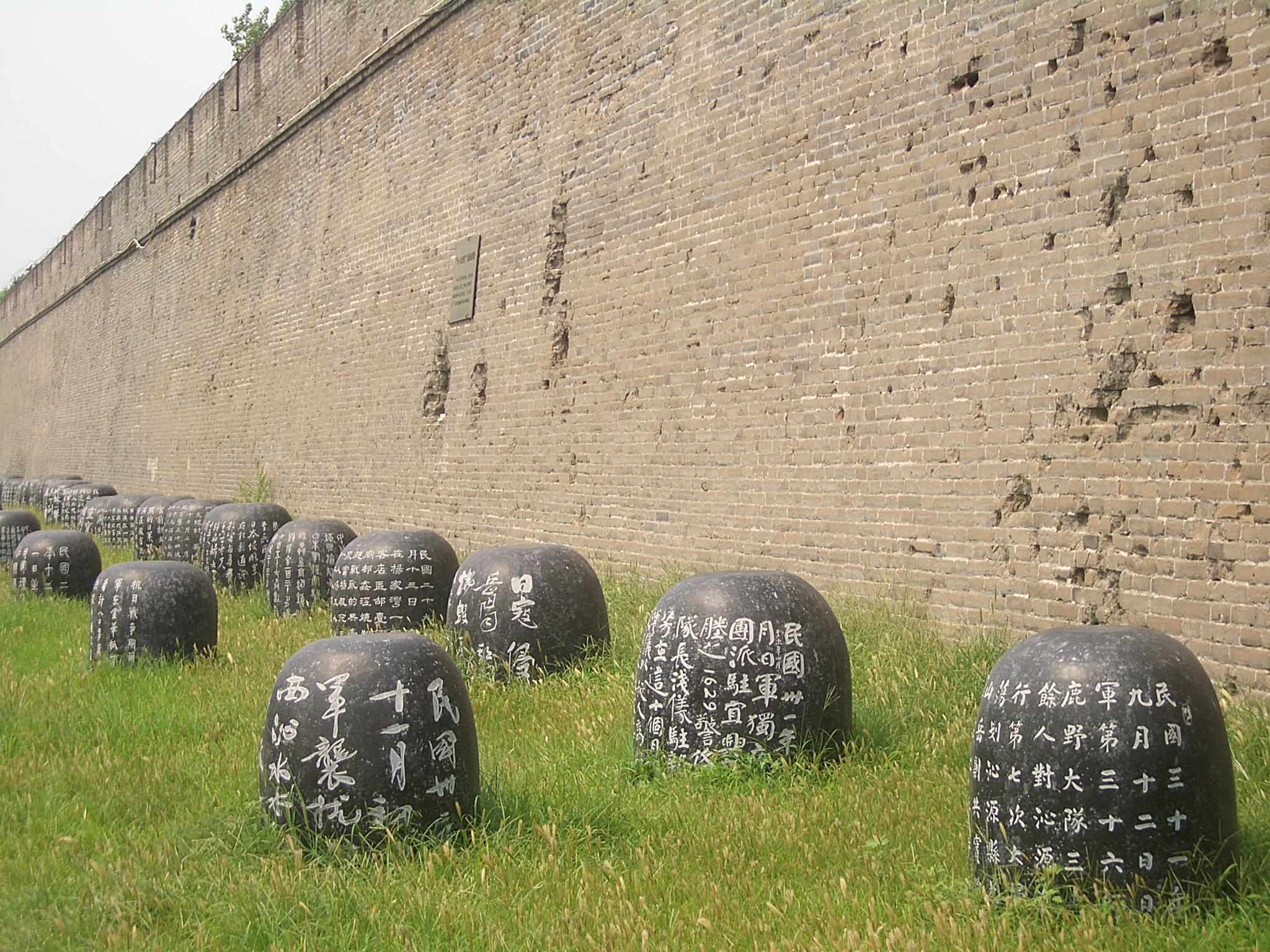 At the south wall of the Wanping Castle in Beijing. The spot damaged by the Japanese shelling during the Marko Polo Bridge (Lugouqiao) Incident in 1937 are marked with a memorial plaque. The text on the row of black stone drums along the walls tells the story of the War againt Japan that followed the incident.